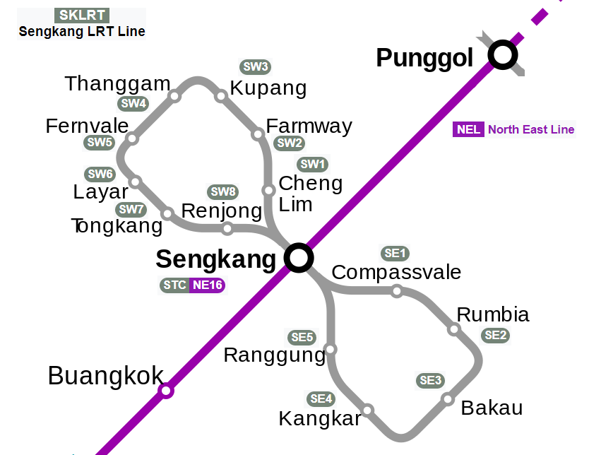 Singapore Sengkang LRT Map